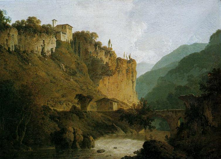 Joseph Wright of Derby. The Convent of San Cosimato and Part of the Claudian Aqueduct near Vicovaro in the Roman Campagna. ca. 1786. Oil on canvas. 76.2 x 63.5. Private collection.